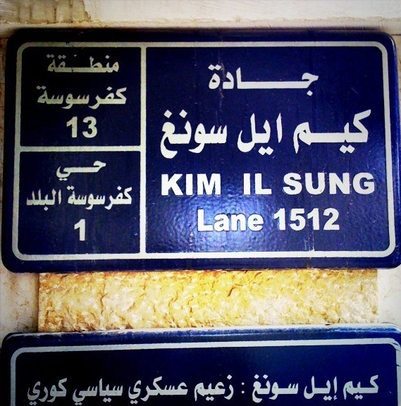 Street sign of Kim Il-sung Lane in Damascus, Syria